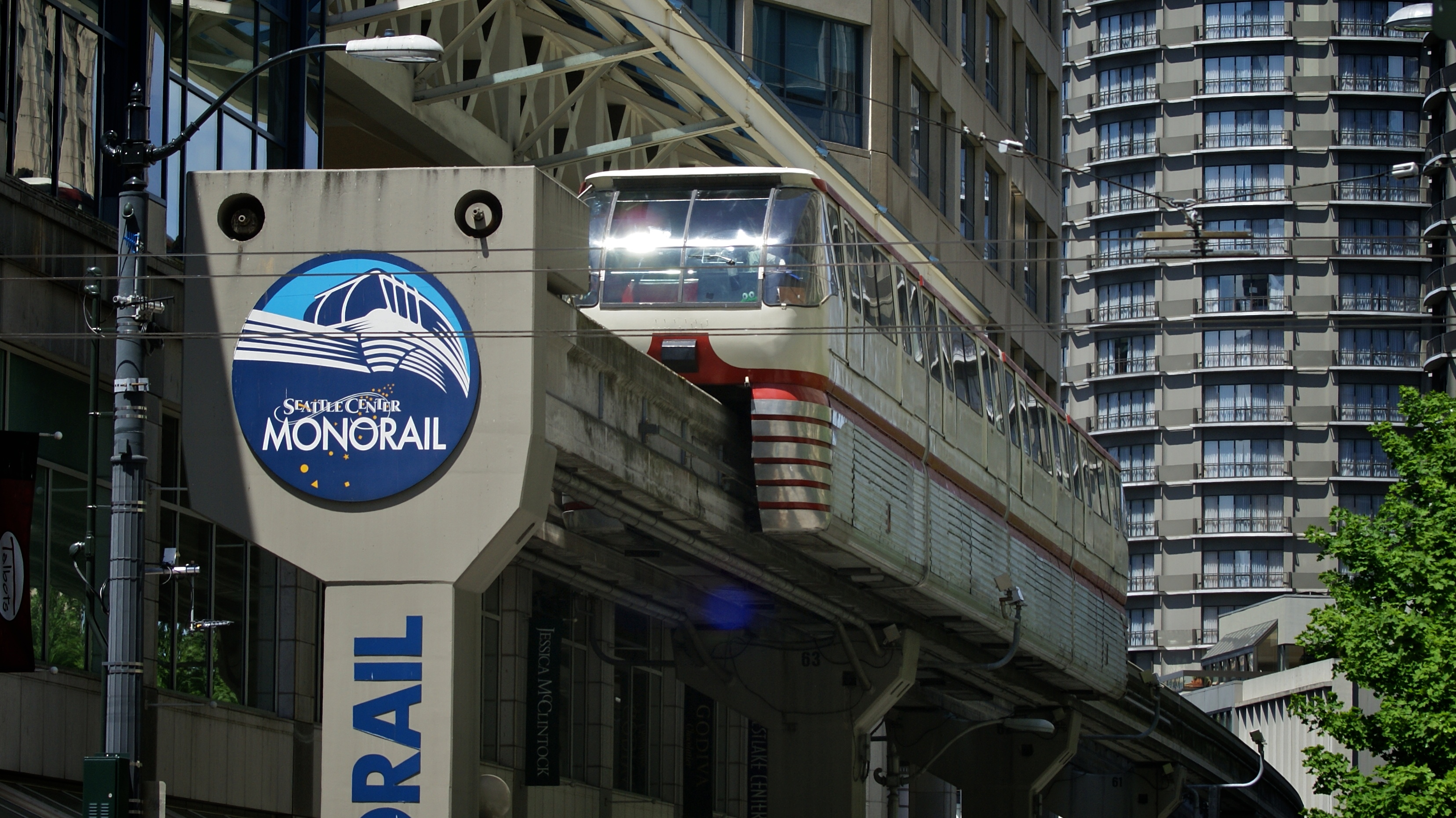 Monorail station at Westlake Center, Seattle.